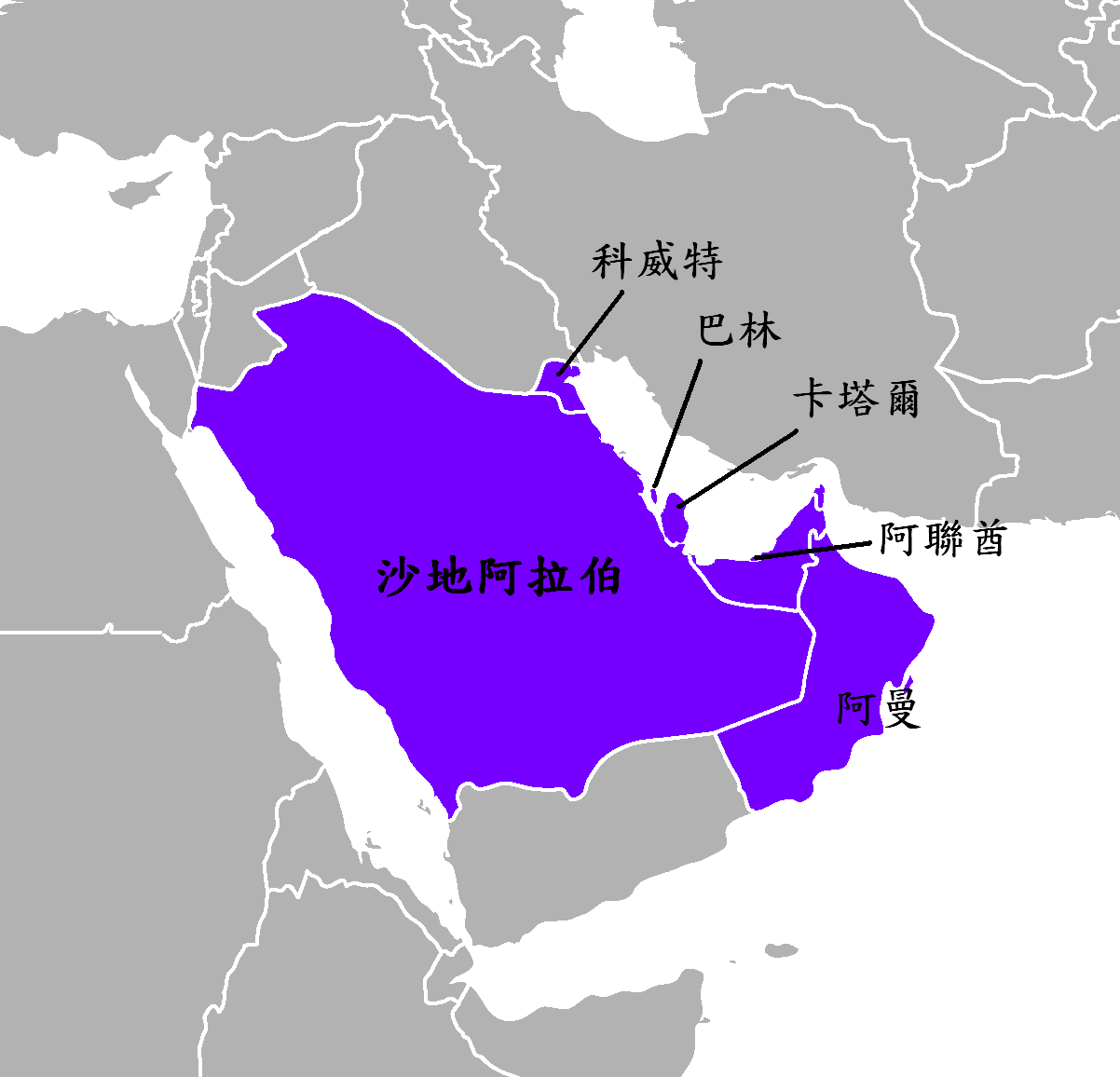 Persian Gulf Arab States (Translate to Chinese)